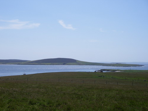 Eday from Faray; Sound of Faray and Fersness Bay in background. Orkney